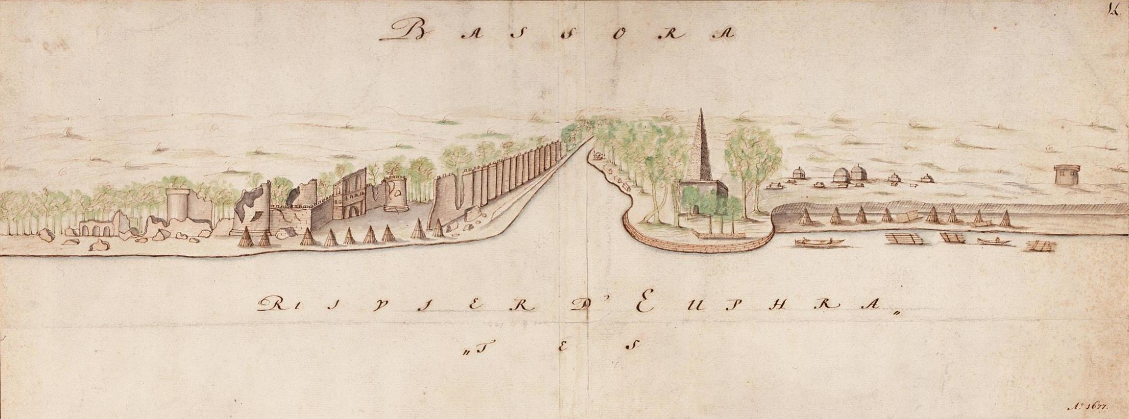 Title in the Leupe catalogue (National Archives): Gezigt op Bassora. Dated around 1695 after the situation in 1677. A paper strip runs round all four sides of the chart by way of reinforcement, the dimensions of the actual map are 48.5 by 70.5 cm. Numbered top right: 14. Notes on reverse: 499a.